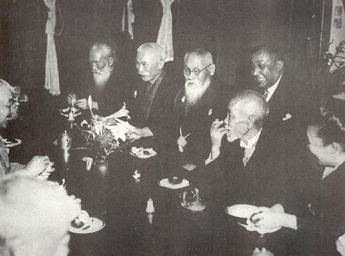 A dinner party given by a Japanese right-wing nationalist Mitsuru Tōyama (頭山満, center) and his associates, including future prime minister Tsuyoshi Inukai (犬養毅, to the right of Tōyama), in honor of their friend, exiled Indian revolutionary leader Rash Behari Bose (ラス・ビハリ・ボース, behind Tōyama and Inukai).